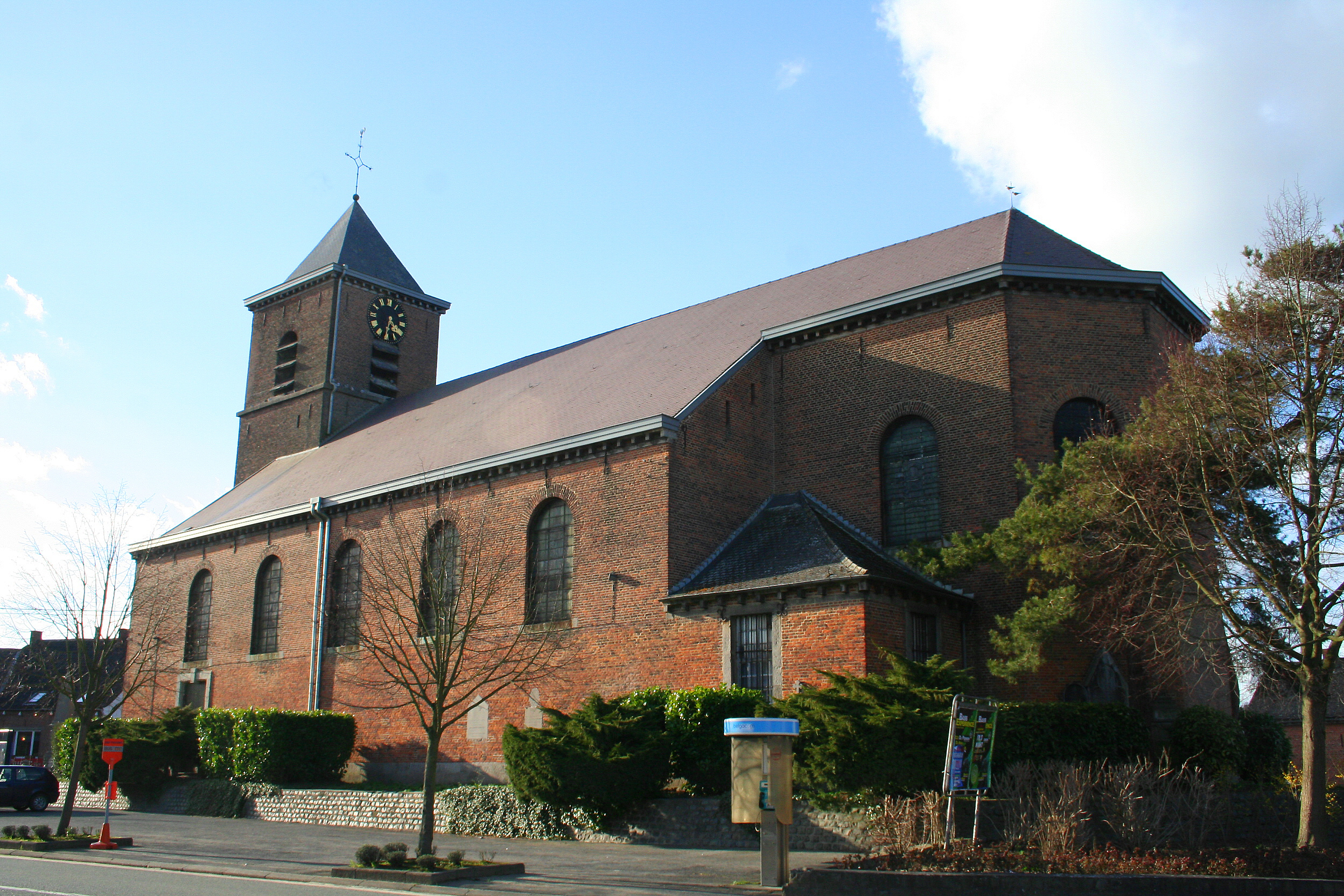 Mainvault (Belgium), the Saint Peter’s church (XVIIIth century).